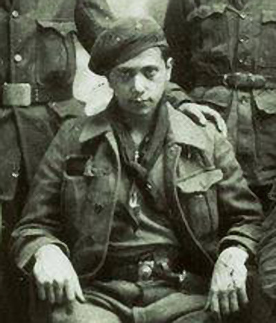 Spain, 1935, Sail, SACB, Cadre, RA, (obituary note died in 1999) The Volunteer, Volume 22, No. 1, Winter 2000, p. 19; Ancestry, SSN.